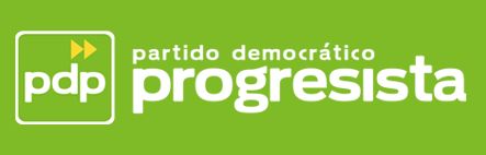 Logo + isotipo del Partido Democrático Progresista